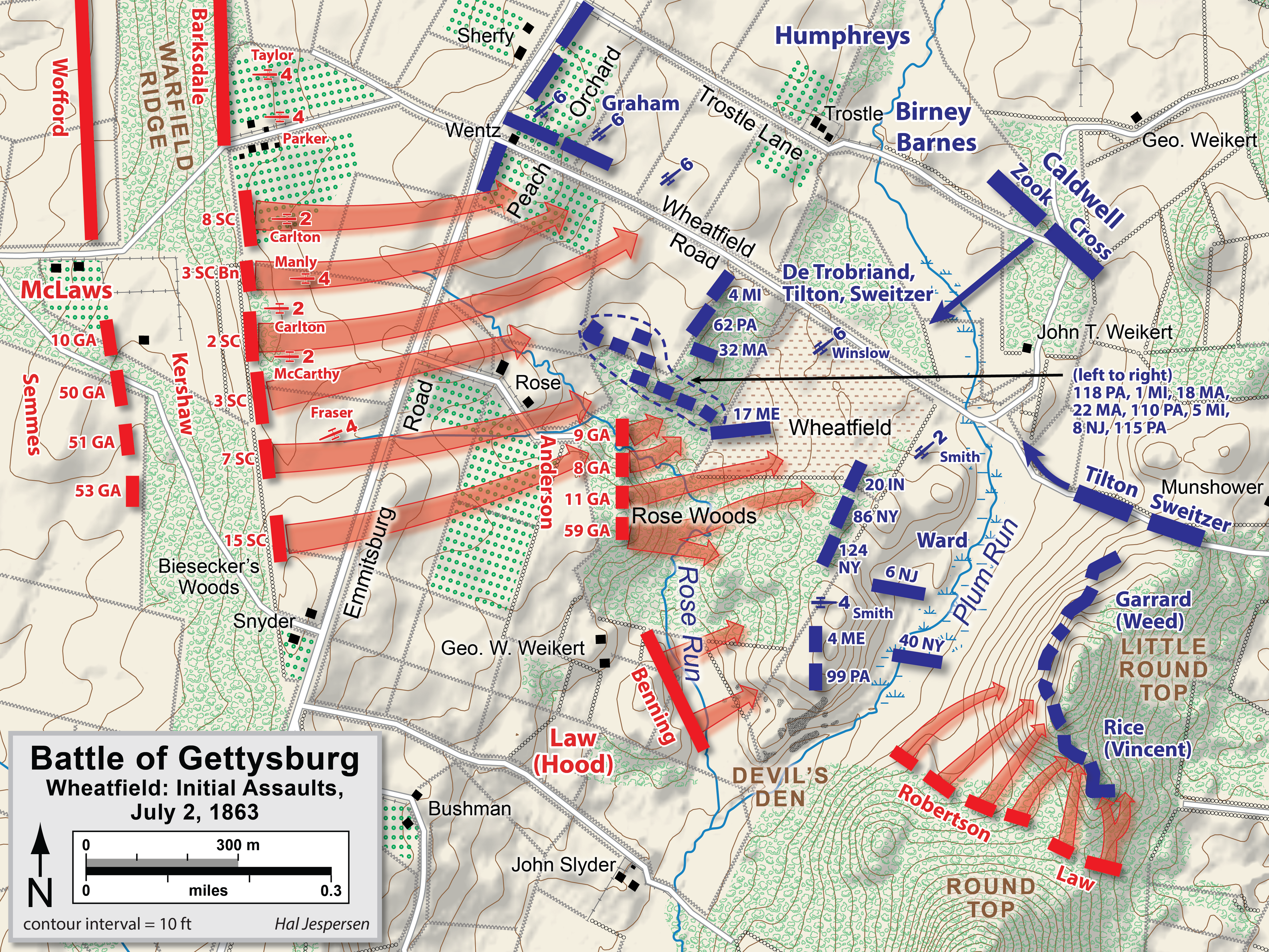 Map of Wheatfield actions in the Battle of Gettysburg, Second Day, of the American Civil War. Updated unit positions and made topographical background consistent with many other Wikipedia Gettysburg maps. Drawn in Adobe Illustrator CS5 by Hal Jespersen. Graphic source file is available at